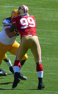 Aldon Smith blocking vs. Green Bay Packers in 2013 season debut